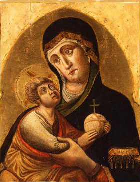 Madanna col bambino, a Vivarini work displayed in the Sala di Censori of the Doge's Palace in Venice, Italy.